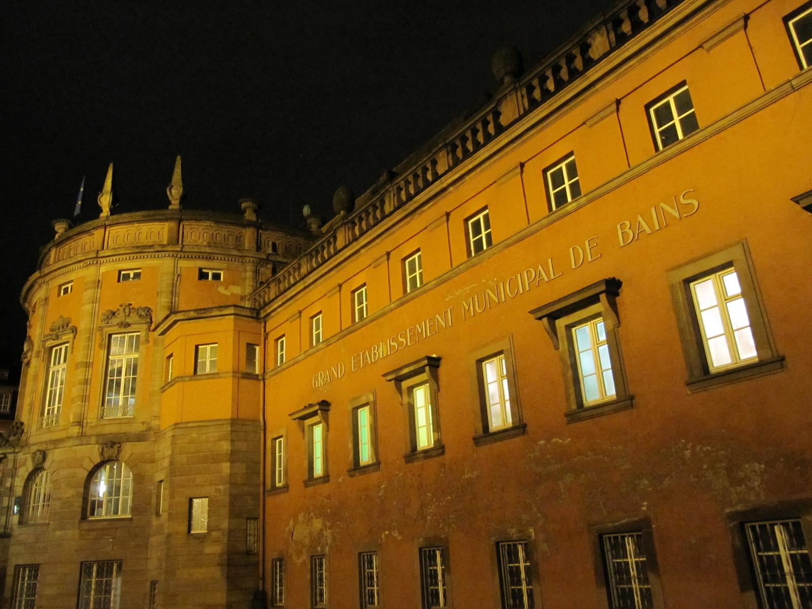 Bains municipaux (swiming pool) [1]. For a full view of the whole complex, click here